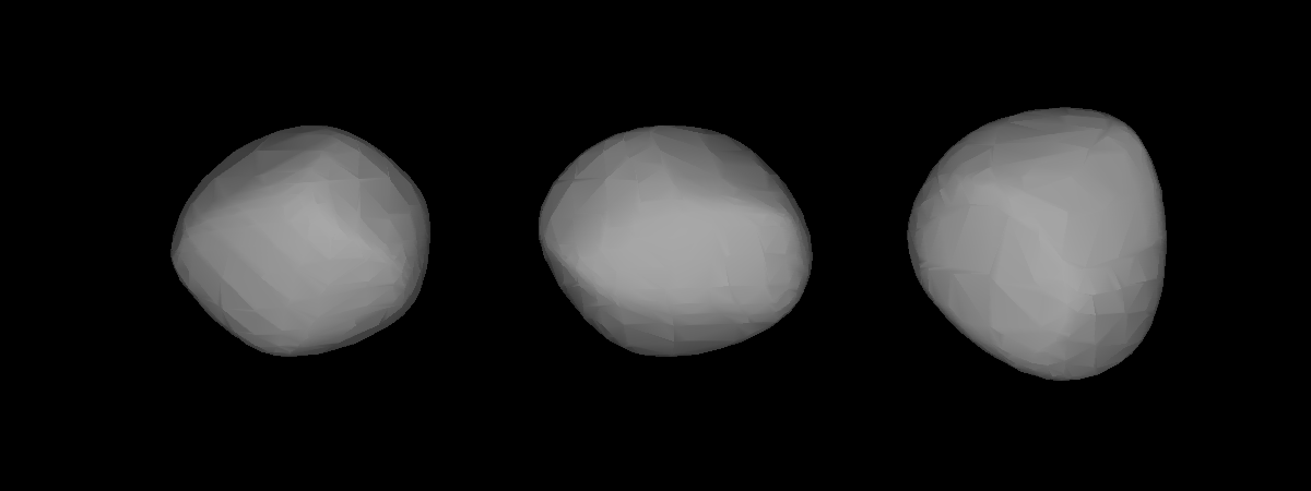 A three-dimensional model of 29 Amphitrite that was computed using light curve inversion techniques.